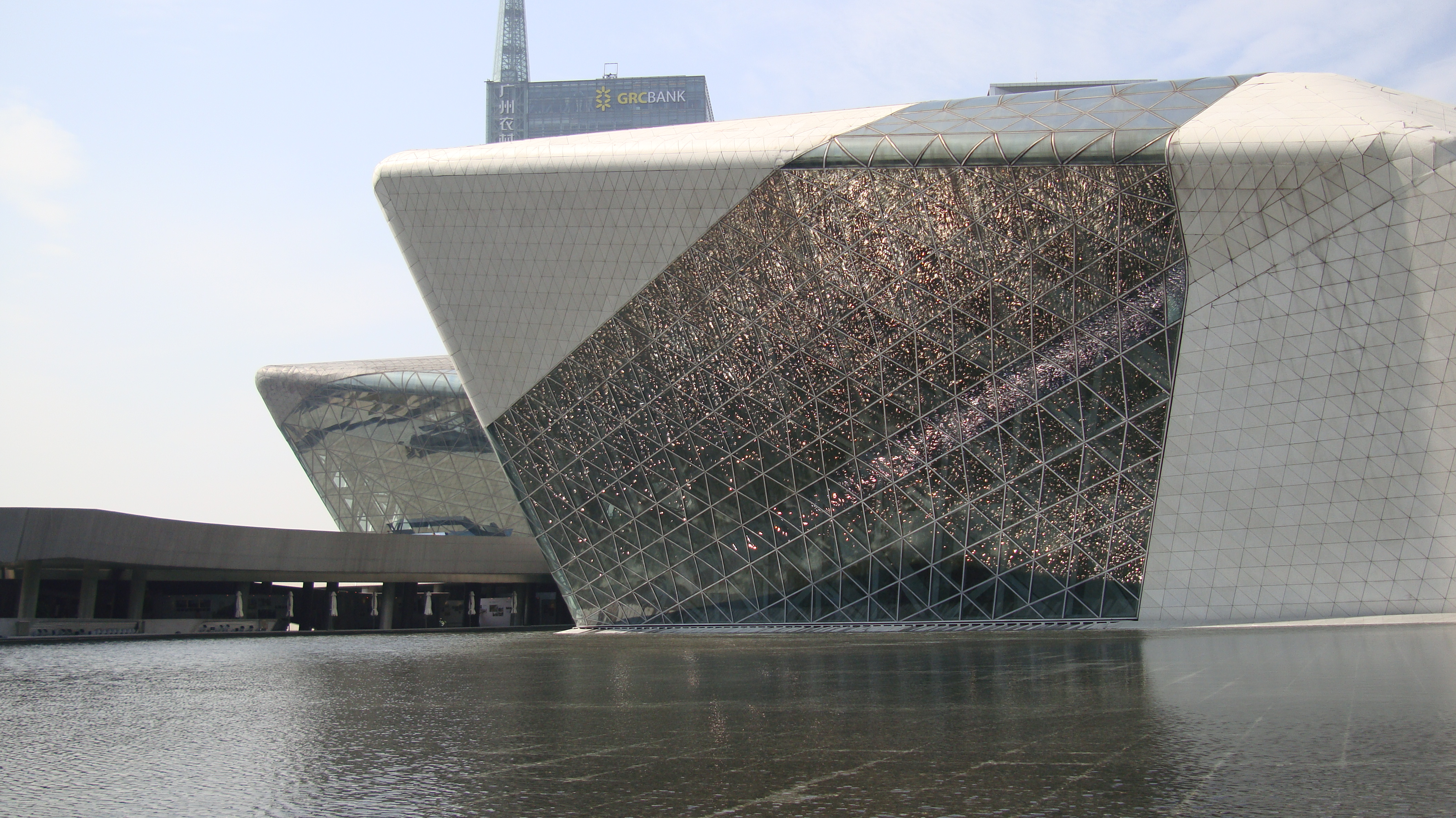 A near and front view of Guangzhou Opera House.